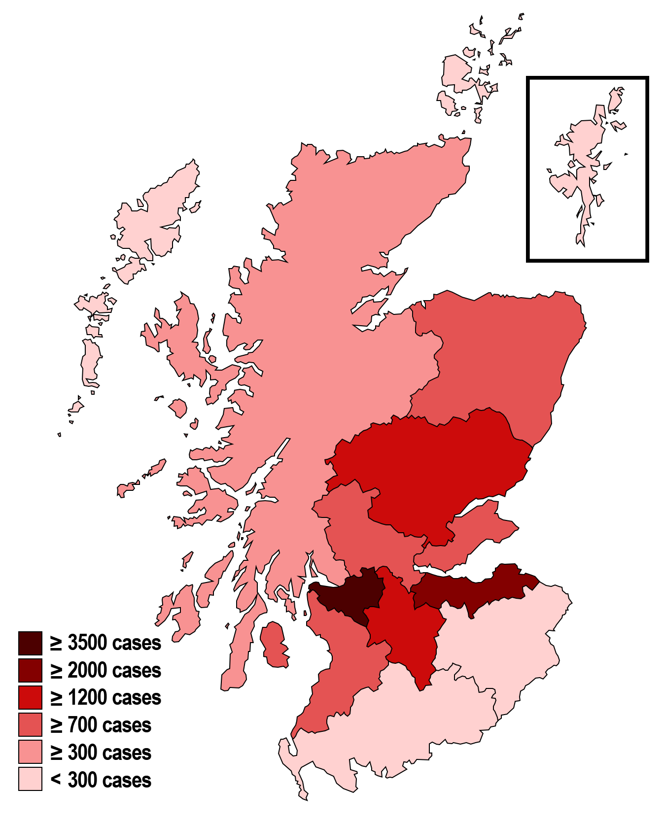 All confirmed cases in Scotland mapped to each NHS Health Region